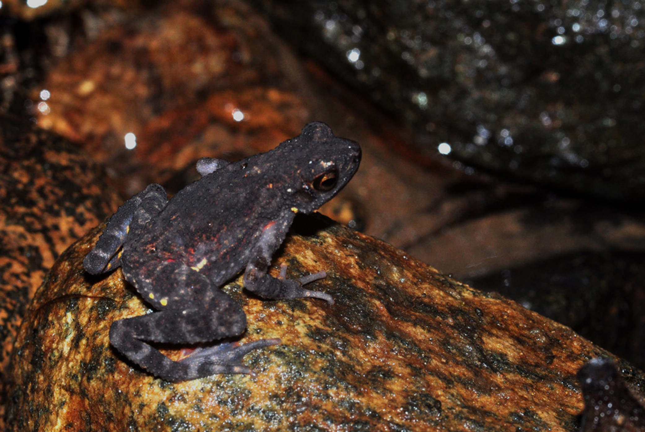 lateral view in type habitat